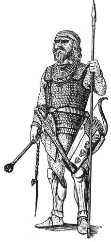 Scythian king outfit. Reconstruction Gorelik MV by the excavations of the mound Thick grave. Nikopol district. IV. e. e.